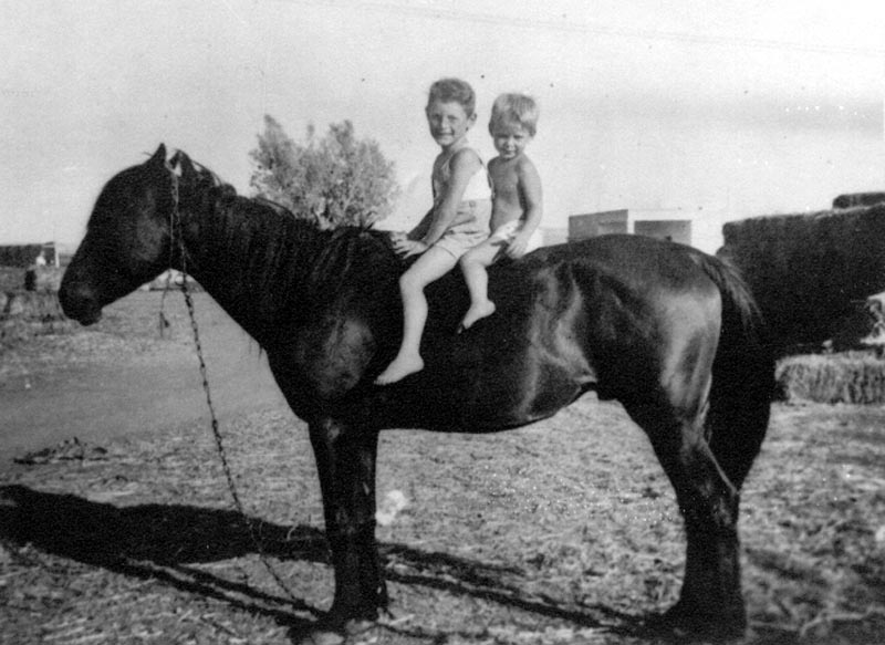 Education in Israel